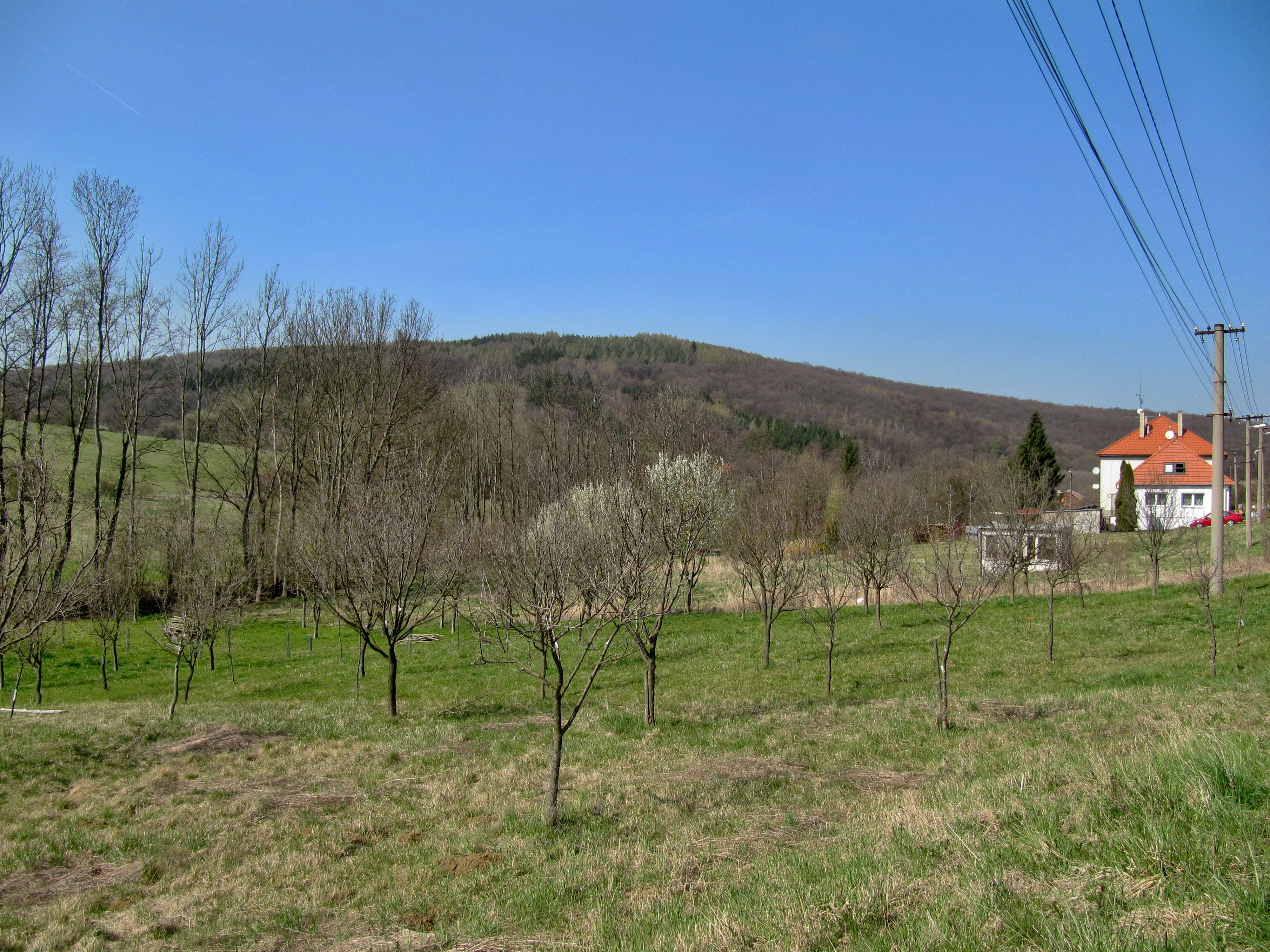 Valy (469 m) hill of the White Carpathian Mountains, near the village of Komňa, District of Uherské Hradiště, Czech Republic.